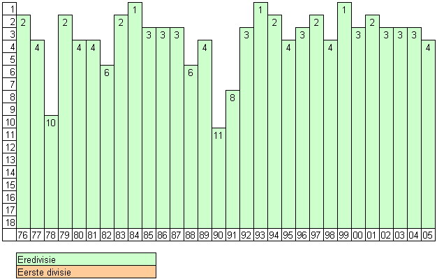 Dutch Eredivisie positions of Feyenoord 1976 - 2005